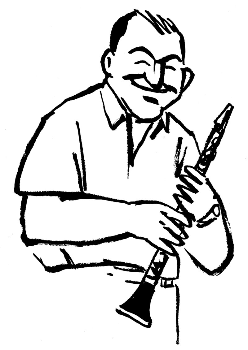 French jazz clarinetist Jacques Gauthé (1939-2007), sketch in Jazz in Marciac, France, 1991.